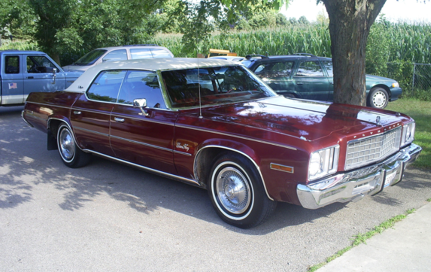 75-77 Plymouth Gran Fury